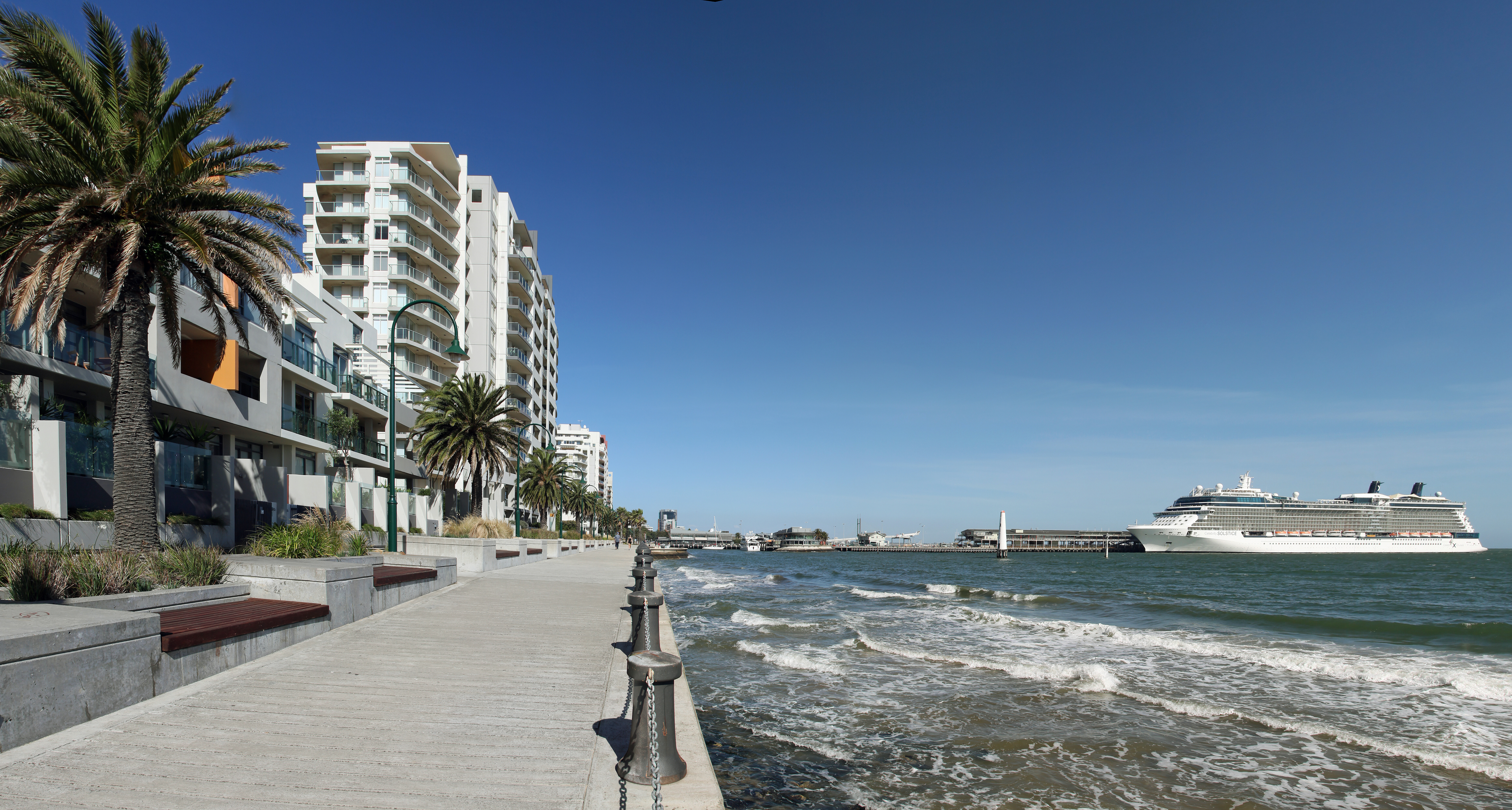 Sea Change at Beacon Cove, Port Melbourne